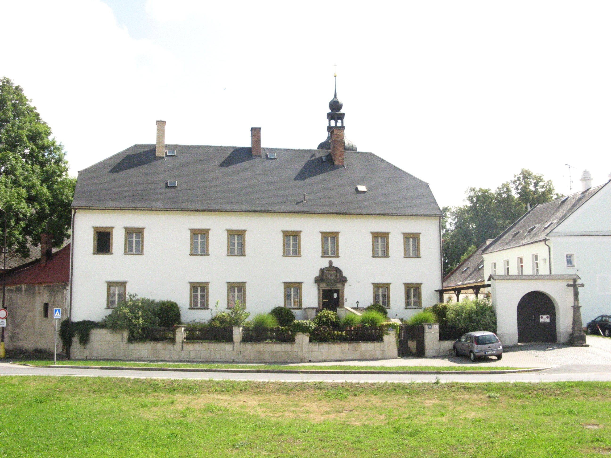 Svitavy - rectory, Czech republic